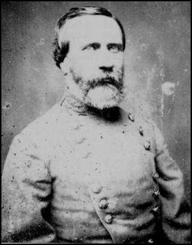 Daguerreotype of Richard Heron Anderson